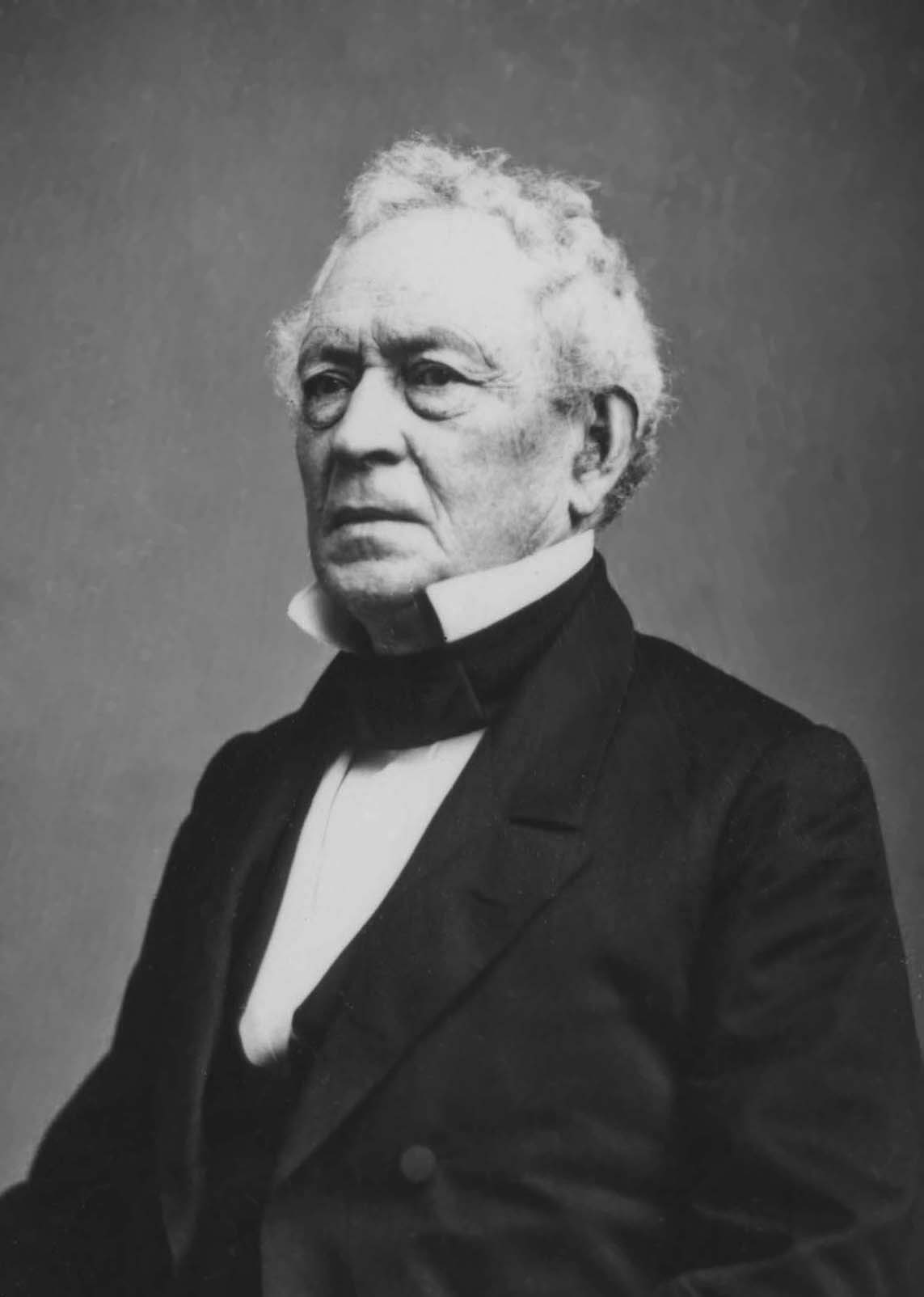 Edward Everett, photographed by Mathew Brady.